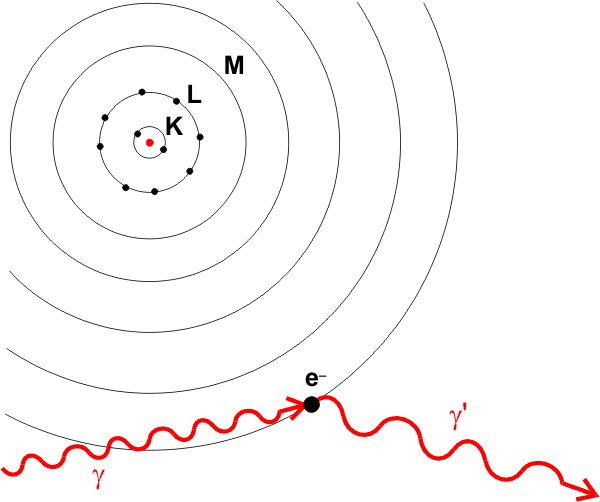 Compton scattering in atom